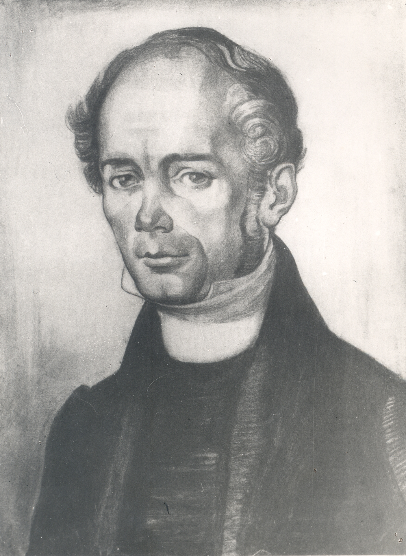 Portrait of Friedrich Robert Faehlmann by Nikolai Triik. charcoal on papermedium QS:P186,Q1424515;P186,Q11472,P518,Q861259